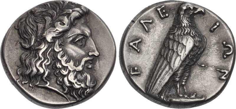 Stater, 352 BC, Olympia. 107th Olympiad